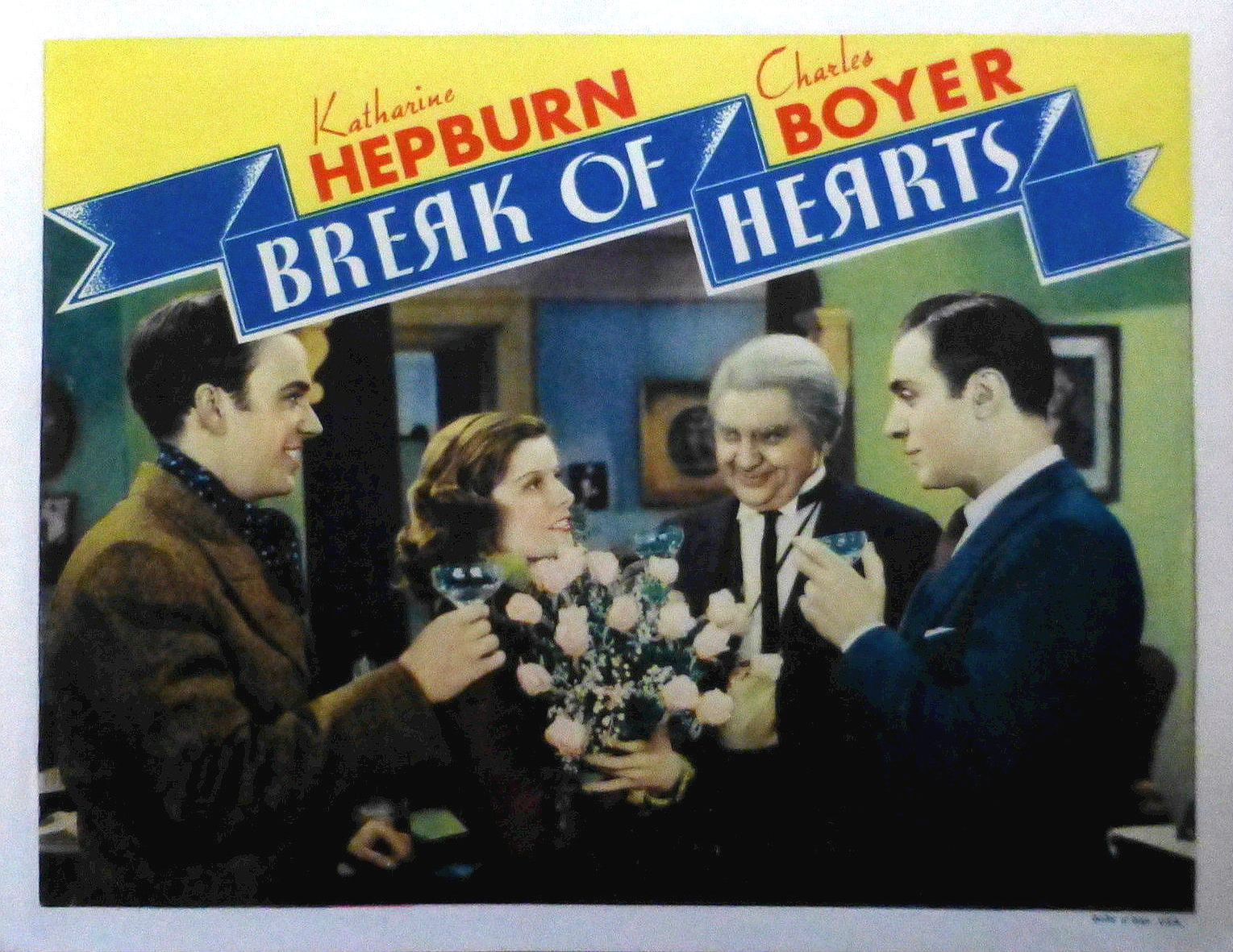 Lobby card for the American film Break of Hearts (1935). The item has no copyright marks on it as can be seen at links and original upload. At bottom right is Country of origin USA.